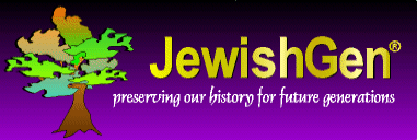 JewishGen logo - old (archive)